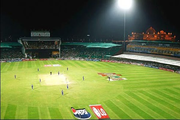 Photo on IPL 6 2013